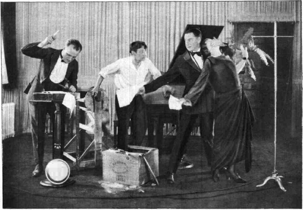 A radio play, "The Great Divide", being broadcast at the studio of early AM radio station WGY in Schenectady, New York in 1923, by their in-house acting troupe, the WGY Players. Radio broadcasting had just begun around 1920, and new forms of entertainment such as the radio melodrama were being invented for the new medium. Sound recording equipment at this time was expensive and crude, so plays were broadcast live. Caption: The WGY Players in action. A busy moment during the broadcasting of "The Great Divide" - Steven Ghent and two ruffians have battered their way into the Jordan cabin and attack Ruth Jordan. The stifled cries of Ruth were produced by holding a hand over her mouth while she emits gurgling shrieks. The smashing effects were produced by wrecking an ordinary packing case, accompanied by the sound of the conventional wood crash machine and sand board. Mr. St. Louis stands with the manuscript at the extreme left, awaiting the cue to fire the pistol shots, depicting the duel between the two ruffians to decide who is to possess the girl. The players reading from left to right are: Edward E. St. Louis, "Shorty"; Frank Oliver, "Dutch"; Edward H. Smith, "Steven Ghent"; and Ruth Shilling, "Ruth Jordan". Each player is his own stage manager and awaits signals from, Edward H. Smith, director, to produce the desired effects.